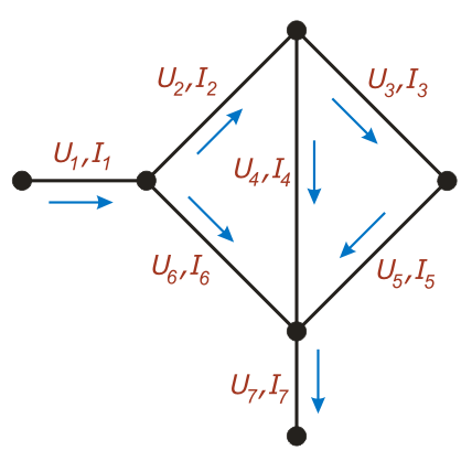 Illustration of Kirchhoffs circuit laws